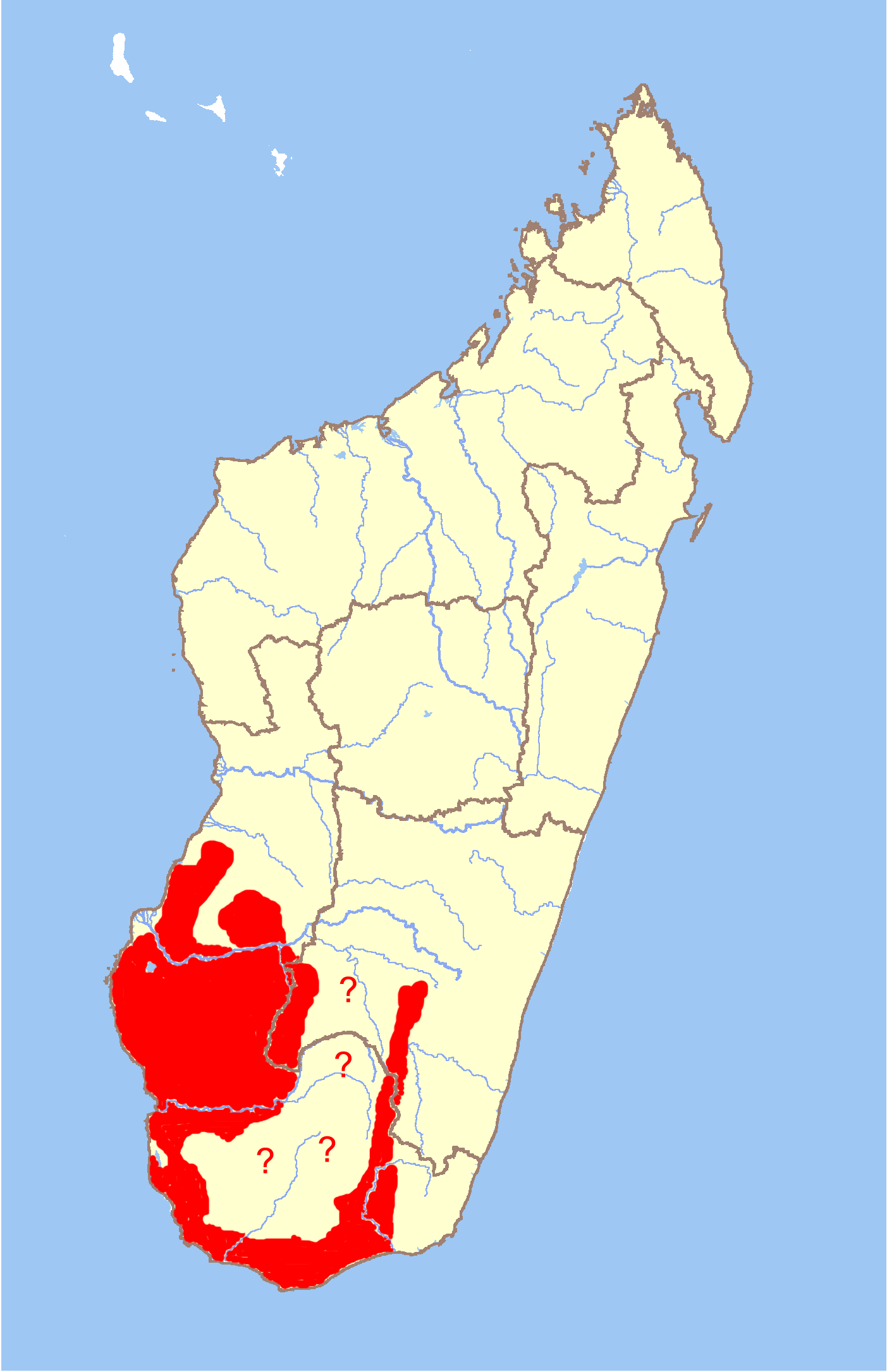 Distribution of the Ring-tailed Lemur (Lemur catta) in Madagascar, based on map from "Lemurs of Madagascar, 2nd edition" by Russell A. Mittermeier, et al.